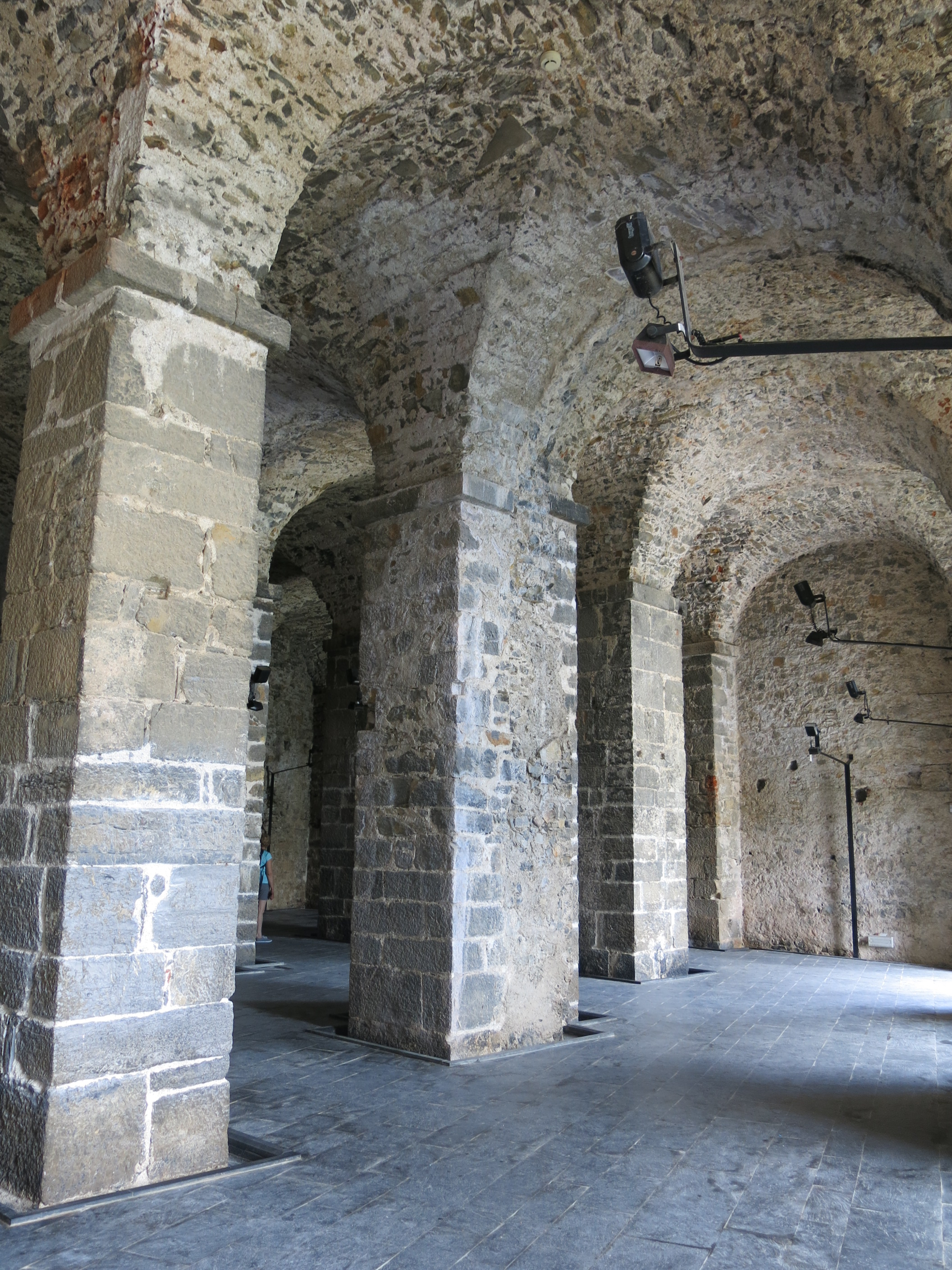 Hypostyle hall of the castello Doria. Porto Venere (Liguria, Italy).